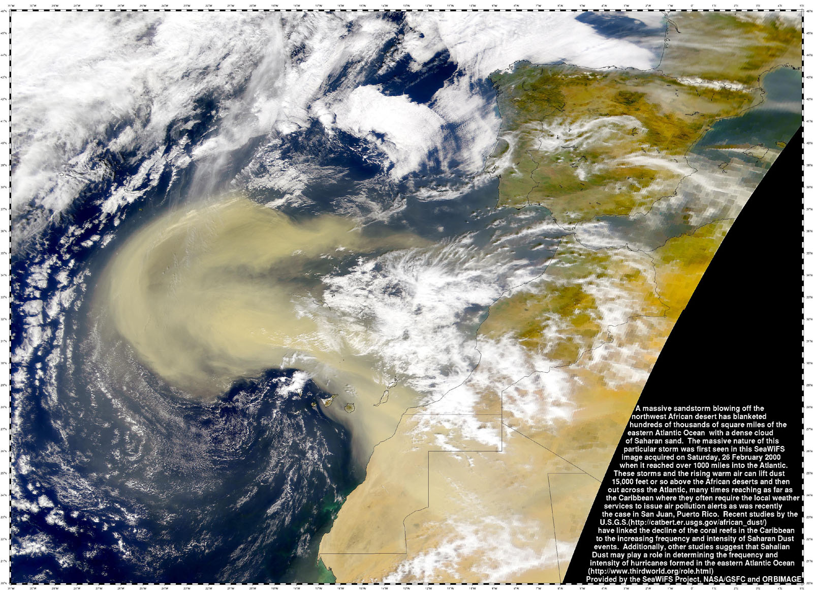 סופת אבק מדברי העולה מחופי צפון מערב אפריקה ומוסעת על ידי הרוח, כאלף קילומטרים אל תוך האוקיינוס האטלנטי. (פברואר 2000)